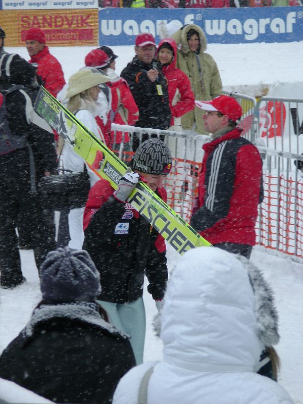 ski jumper Adam Małysz from Poland during the World Cup in Zakopane on 27-1-2008